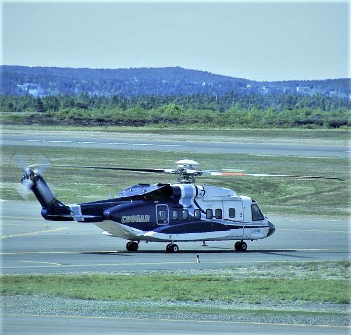 Cougar Helicpoter ready to leave St. John's International Airport, NflL, [foto by Paul B. Toman]